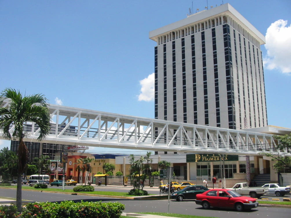 Panoramic view of "Torre Roble", located in San Salvador, El Salvador.